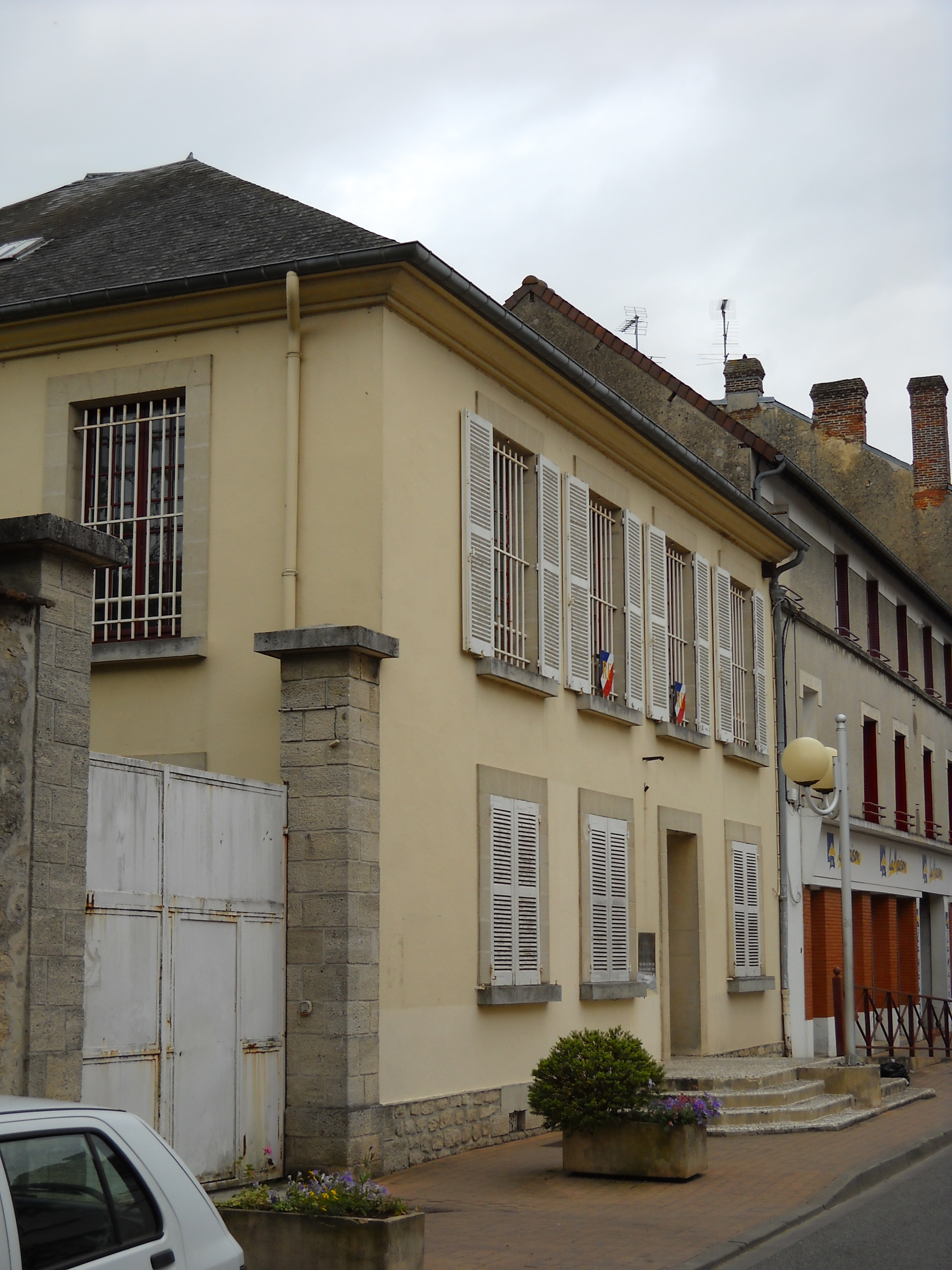 The subprefecture of Argentan, Orne, France.